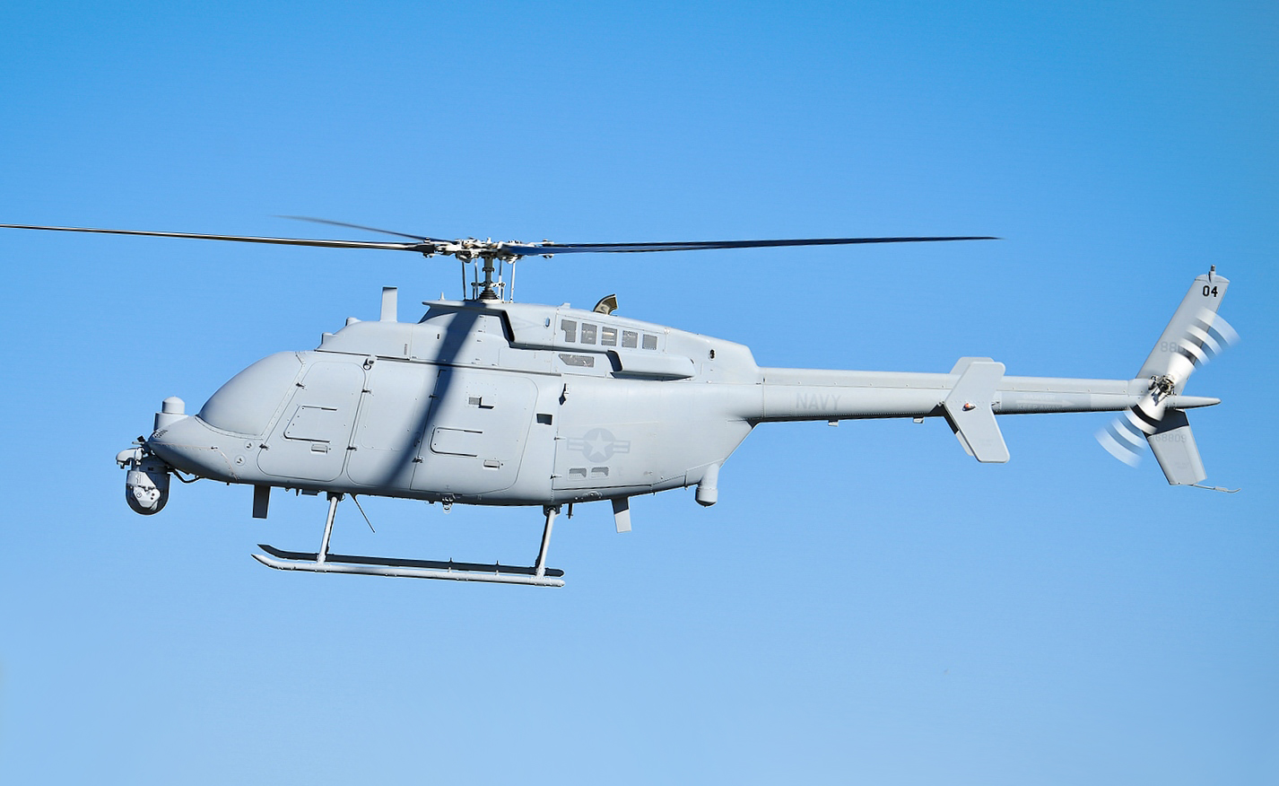 cropped version of this image - MQ-8C Fire Scout flying over Webster Field Annex